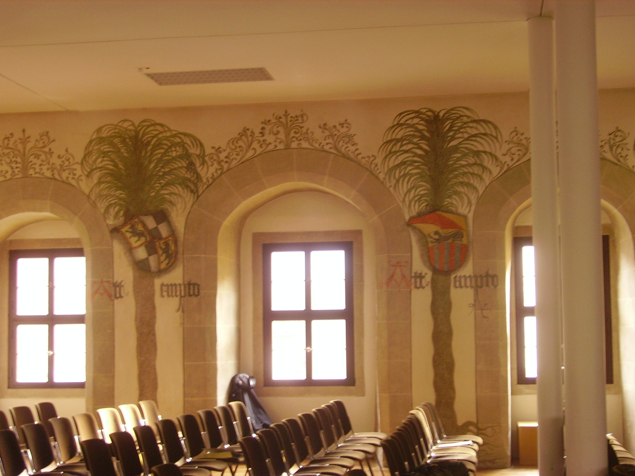 Palm Room of Urach Castle, Bad Urach